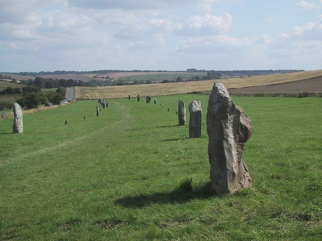 Stone avenue at Avebury parallels the B4003